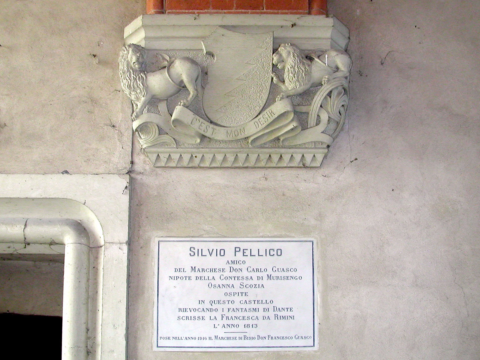 The plate remembers that in this castle of medieval origin was guest, in 1813, the Italian writer and patriot Silvio Pellico. He wrote here the tragedy "Francesca da Rimini". The plaque reads: "Silvio Pellico / friend / of the Marquis Don Carlo Guasco / grandson of the Countess of Murisengo / Osanna Scozia / guest / in this castle / recalling the ghosts of Dante / wrote Francesca da Rimini / year 1813 / Pose in the year 1916 the Marquis of Bisio Don Francesco Guasco". The above corbel is part of the castle decoration, which belonged to the Guasco family (from Alessandria) in the 19th century; There is the coat of arms of the house (a gold and blue crocheted) and its motto "C'est mon desir". The picture was taken in 2003, during a time of abandonment of the building, before restorations that in 2012 returned dignity to the ancient castle.